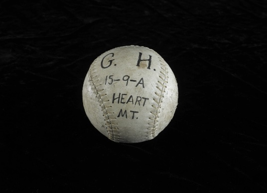 a softball ball from Heart Mountain Relocation Center, formerly owned by George Hirahara (whose initials "G.H." are inscribed on the ball). Donated to the National Museum of American History, Smithsonian Institution, by George Hirahara's granddaughter, Patti Hirahara